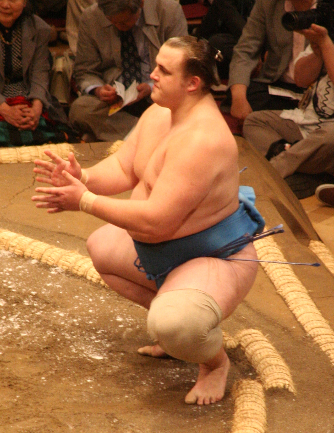 First day of 2009 May Sumo Tournament in Tokyo, Japan - Baruto